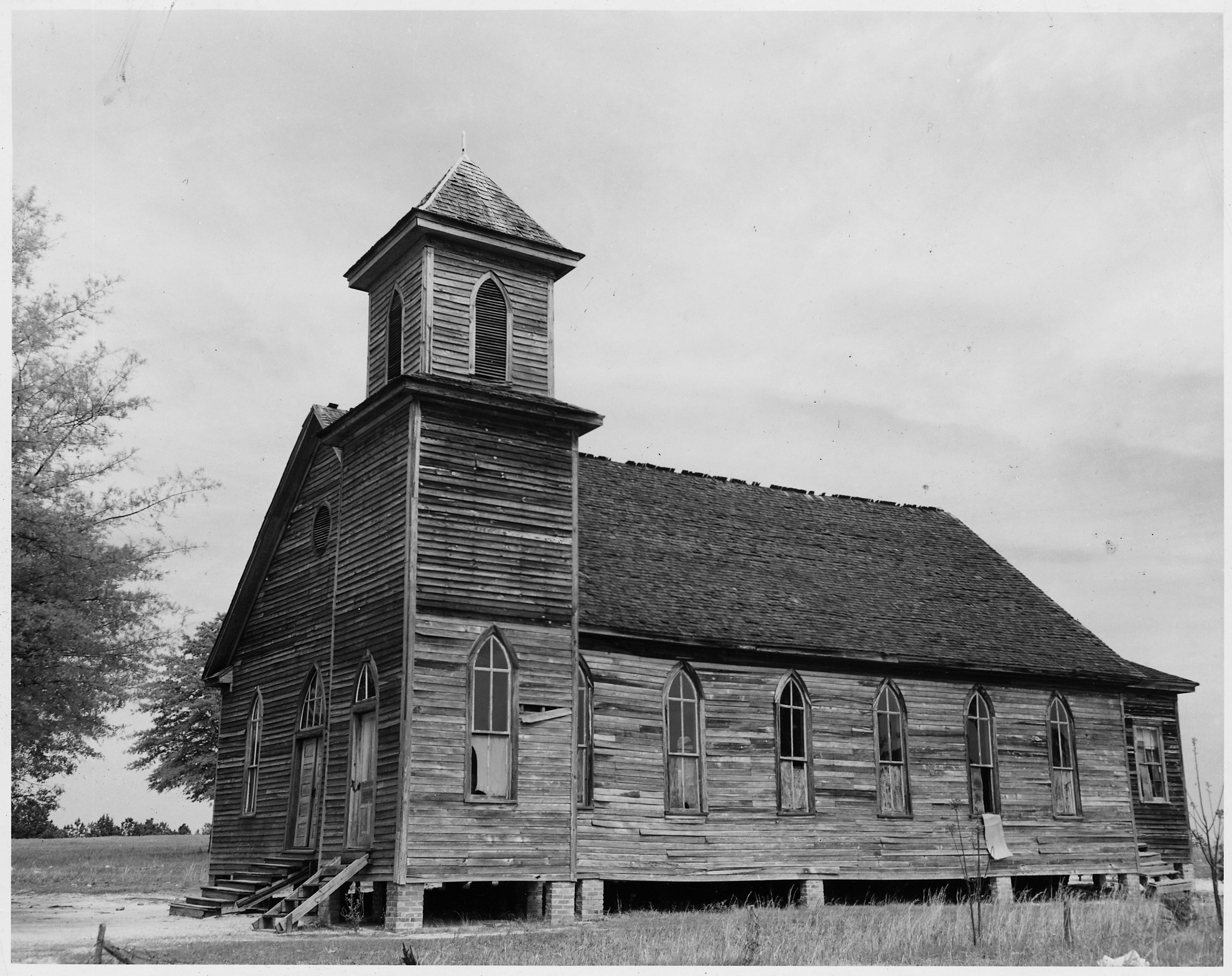 Scope and content: Full caption reads as follows: Newberry County, South Carolina. View of [African-American] church in thinly populated areas of Newberry County, South Carolina.